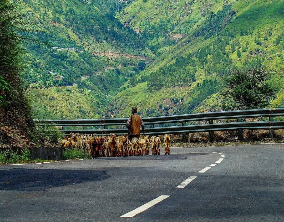 A goatherd herding goats near Kumarsain.